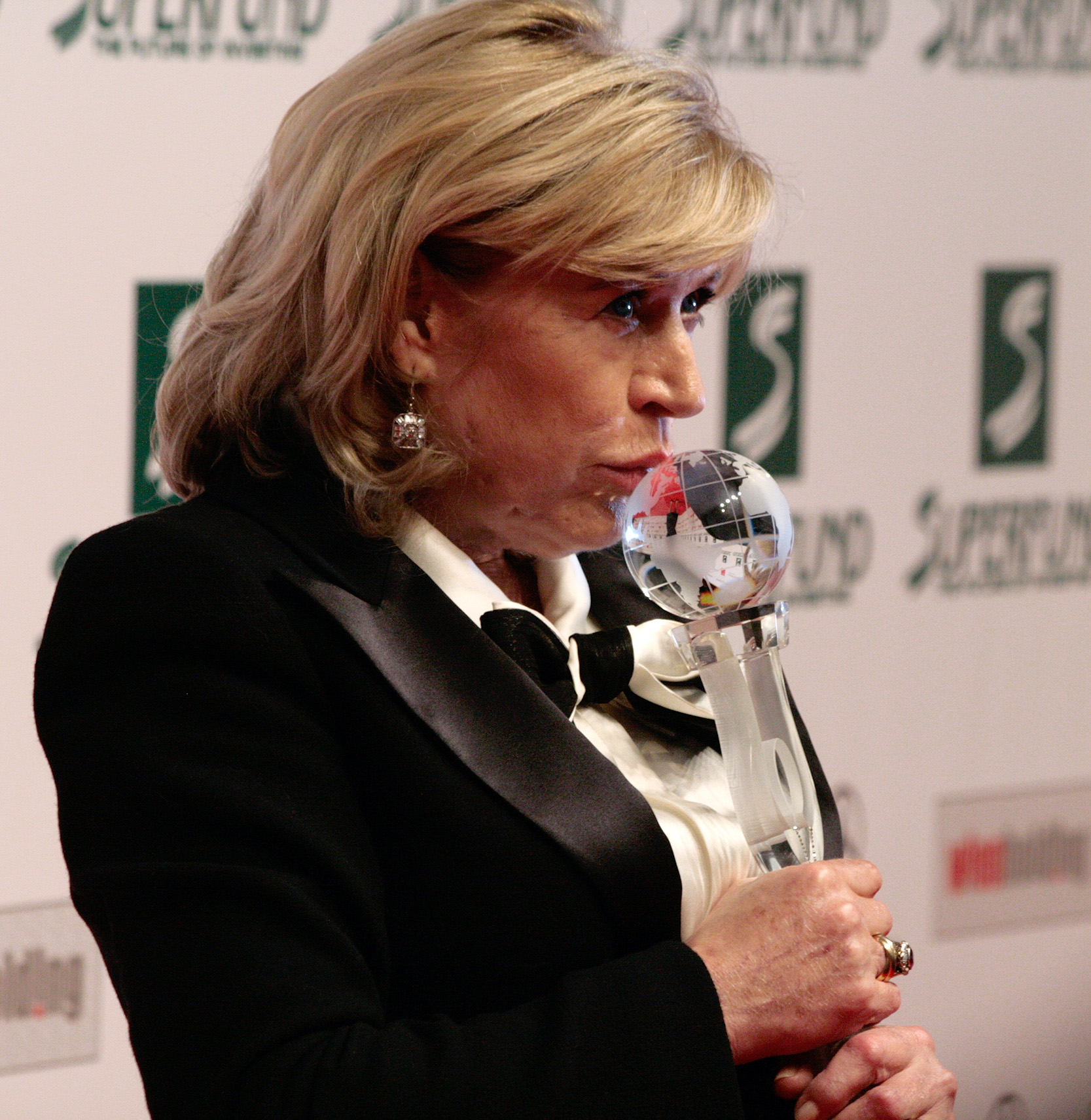 Marianne Faithfull at the Women's World Award 2009 (Wiener Stadthalle, Vienna, Austria).